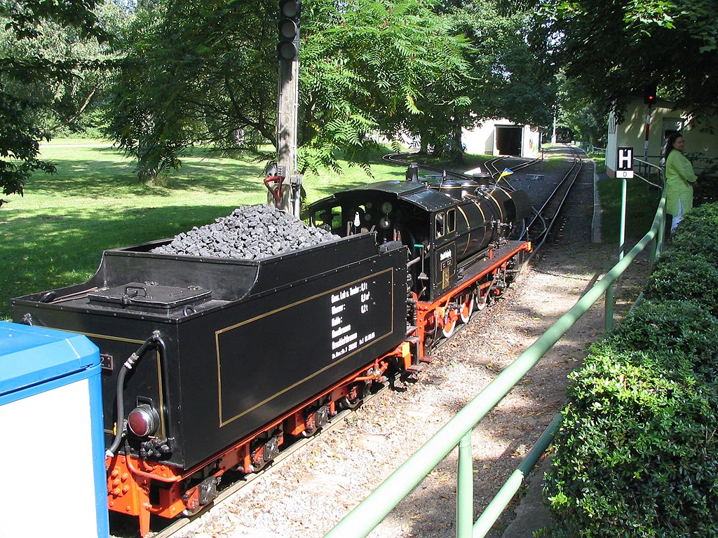 Steam locomotive of the park railway (former pioneer's railway) on the lake “Auensee” in Leipzig